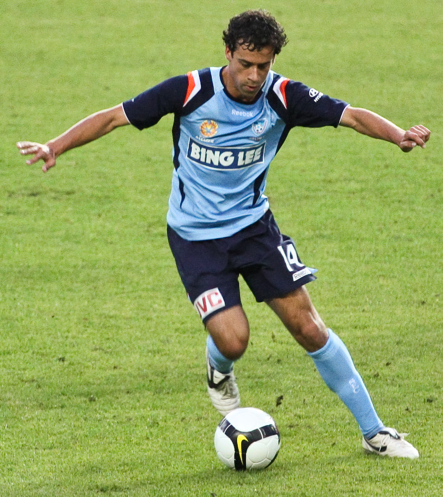 Alex Brosque playing for Sydney FC against the Central Coast Mariners in Round 10 of the 08/09 A-League.